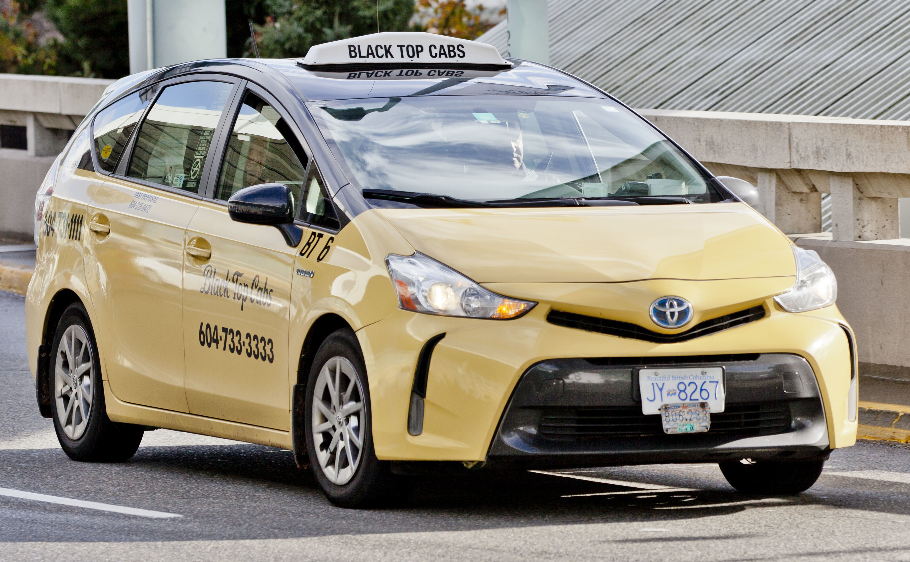 Black Top Cabs